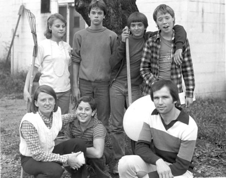 Topeka Mennonite Church junior MYF service weekend in Goshen. The adults are Greg and Connie Lehman. Christ Wainscott is the child between. Back row from left: Vickie Hostetler, J.J. Egli, Tim? Frain, and Nathan Rempel. The group might have done some work at Assembly Mennonite Church in Goshen, Indiana. Citation: Mennonite Board of Missions. Photographs. Group Venture, 1980's. IX-10-7.3 Box 15 Folder 36. Mennonite Church USA Archives - Goshen. Goshen, Indiana.